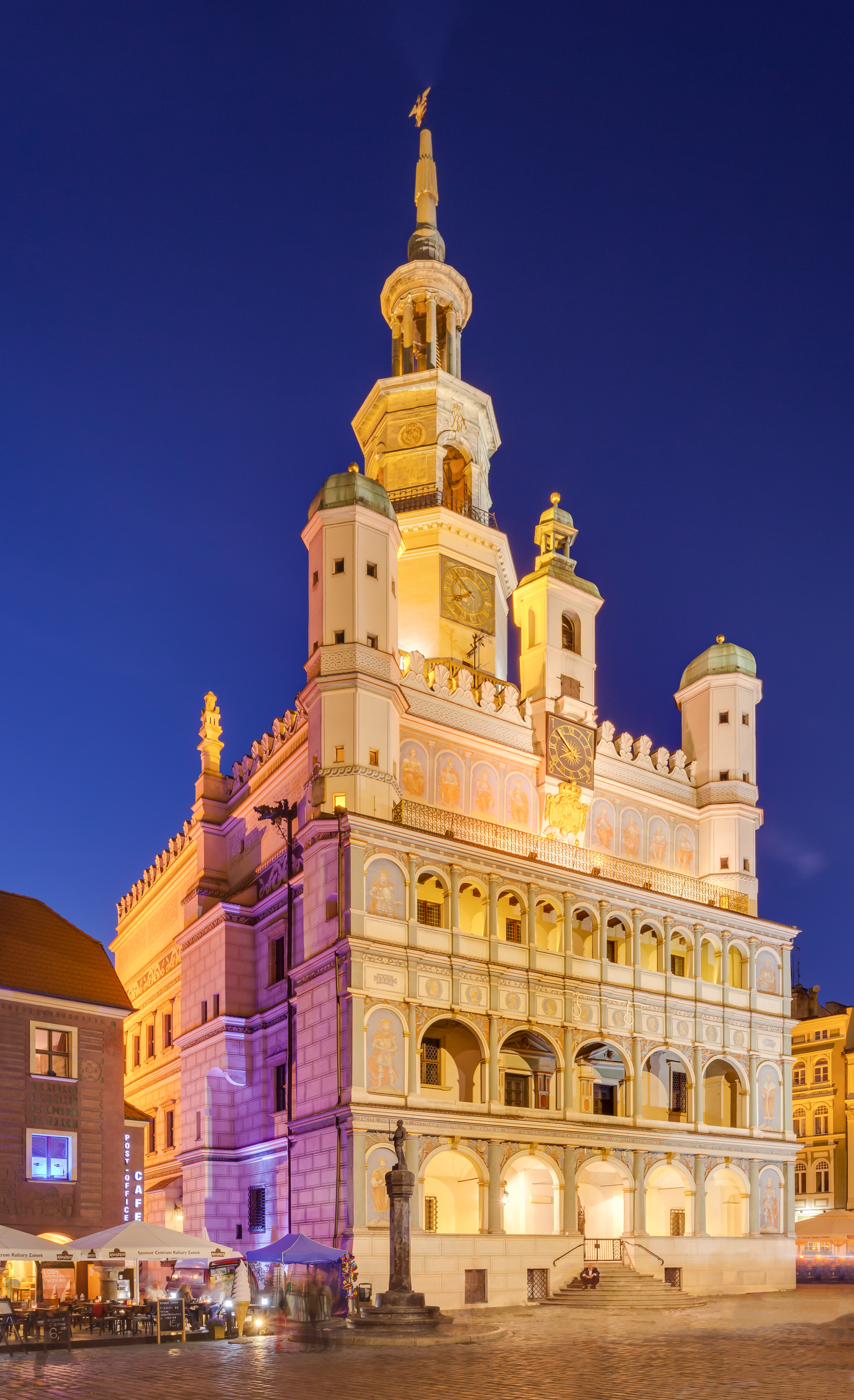 Town hall, Poznan, Poland